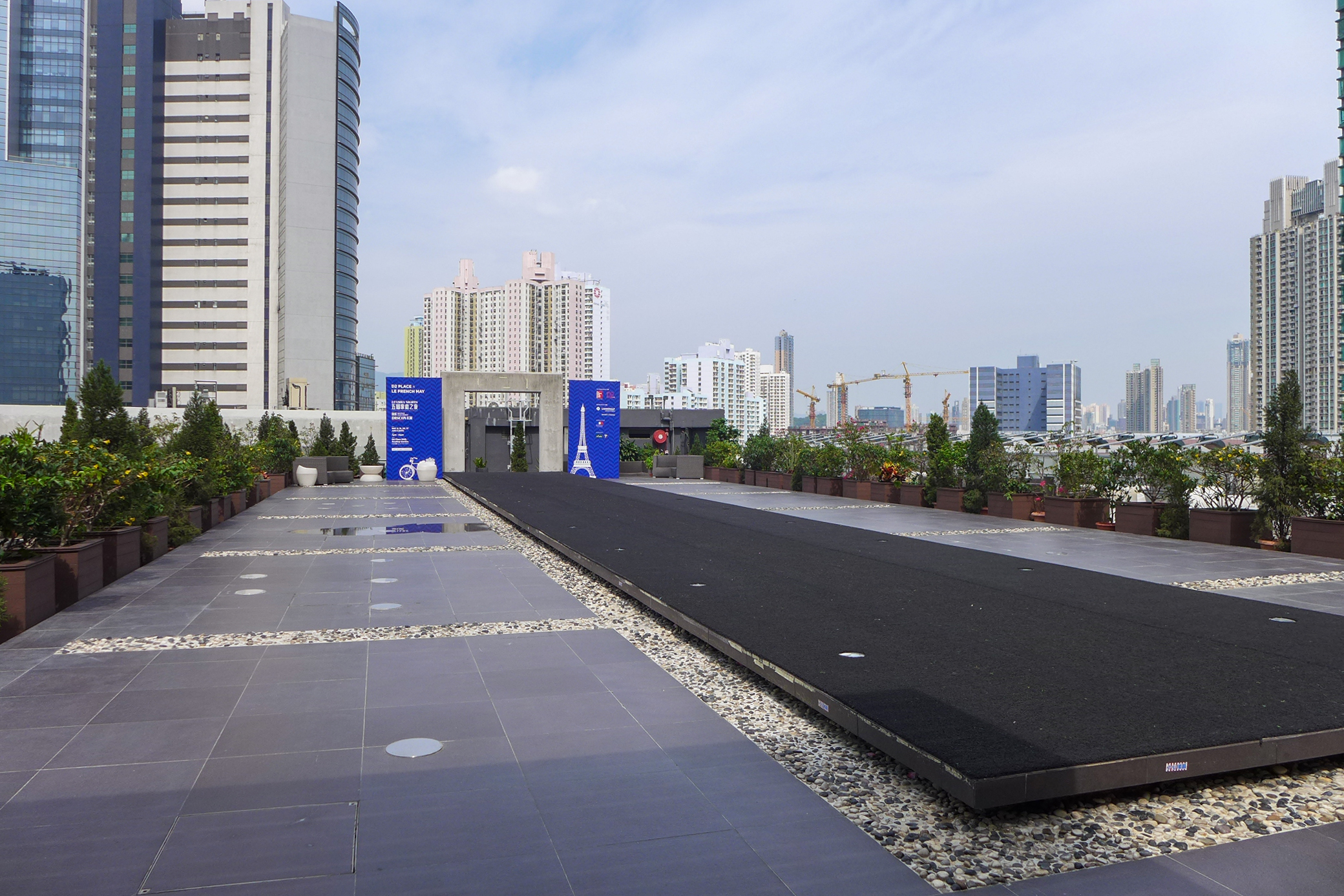 D2 Place Level 10 Roof garden